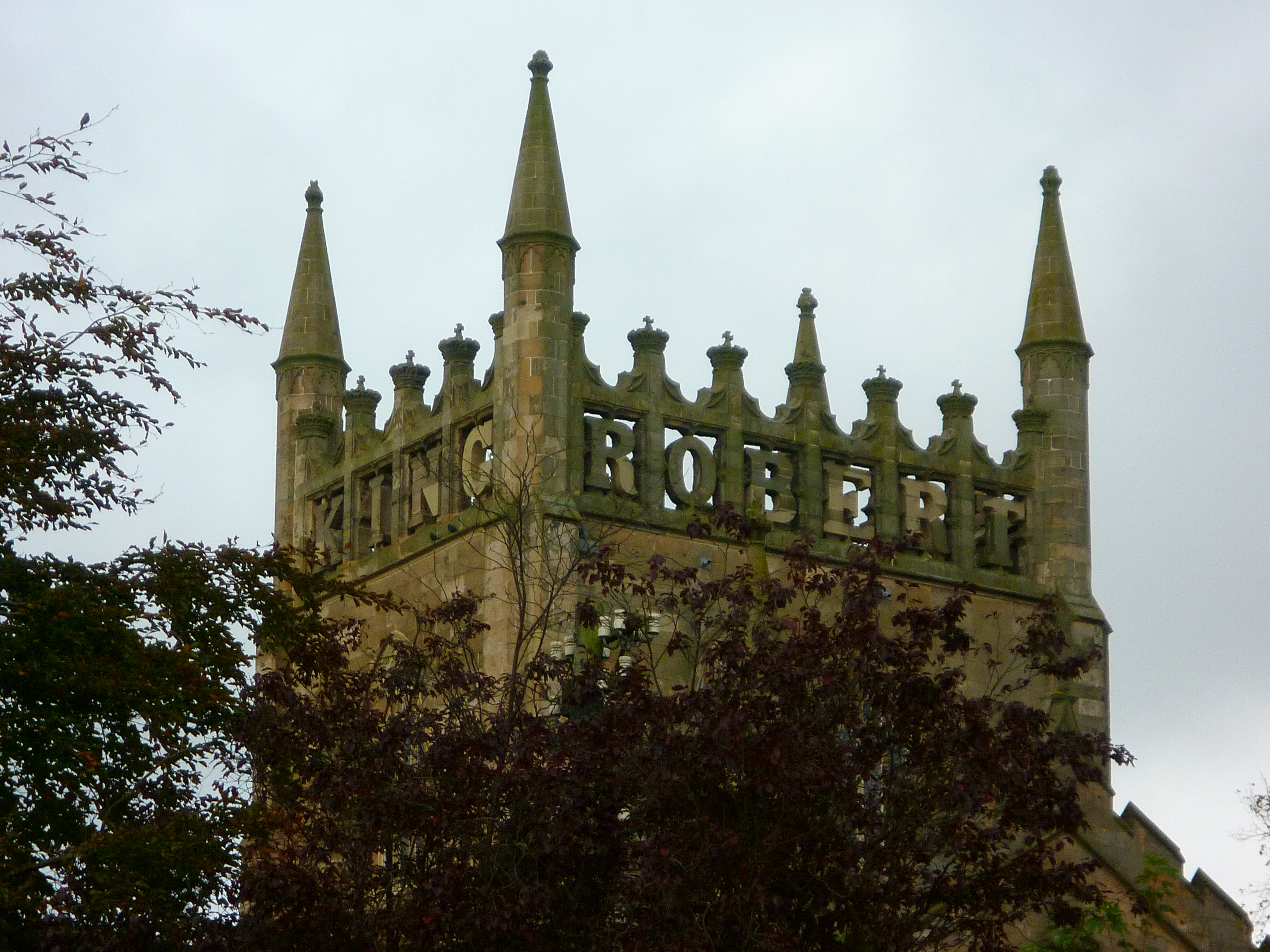 The tower incoporates the letters KING ROBERT THE BRUCE